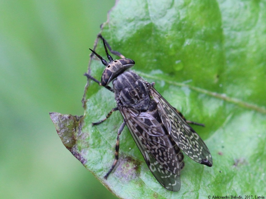 Haematopota pluvialis